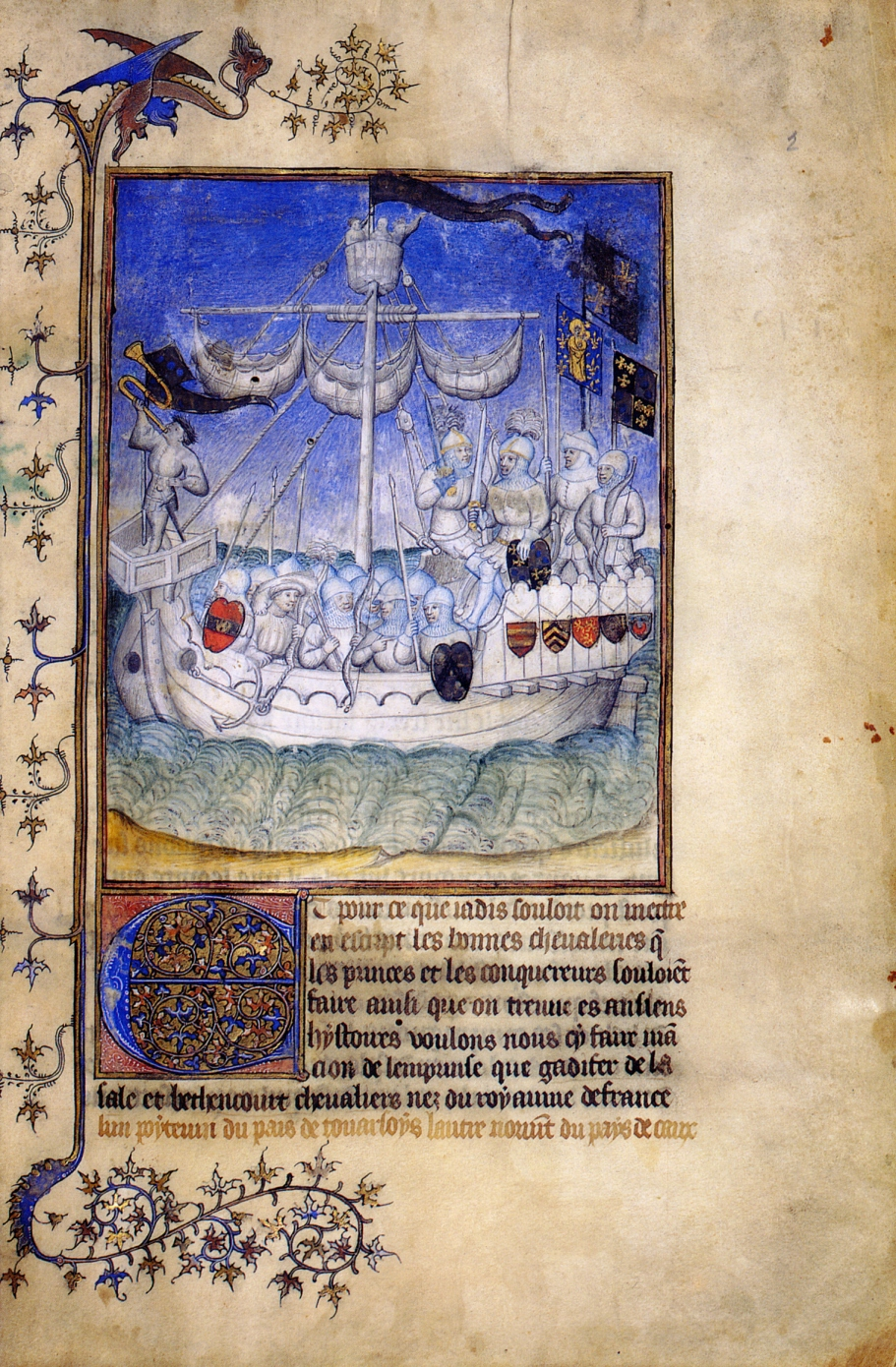 Expedition to the Canary Islands, miniature, "Le Canarien", British Library, Egerton MS 2709, fol. 2 References: Backhouse: The Illuminated Page, No. 119